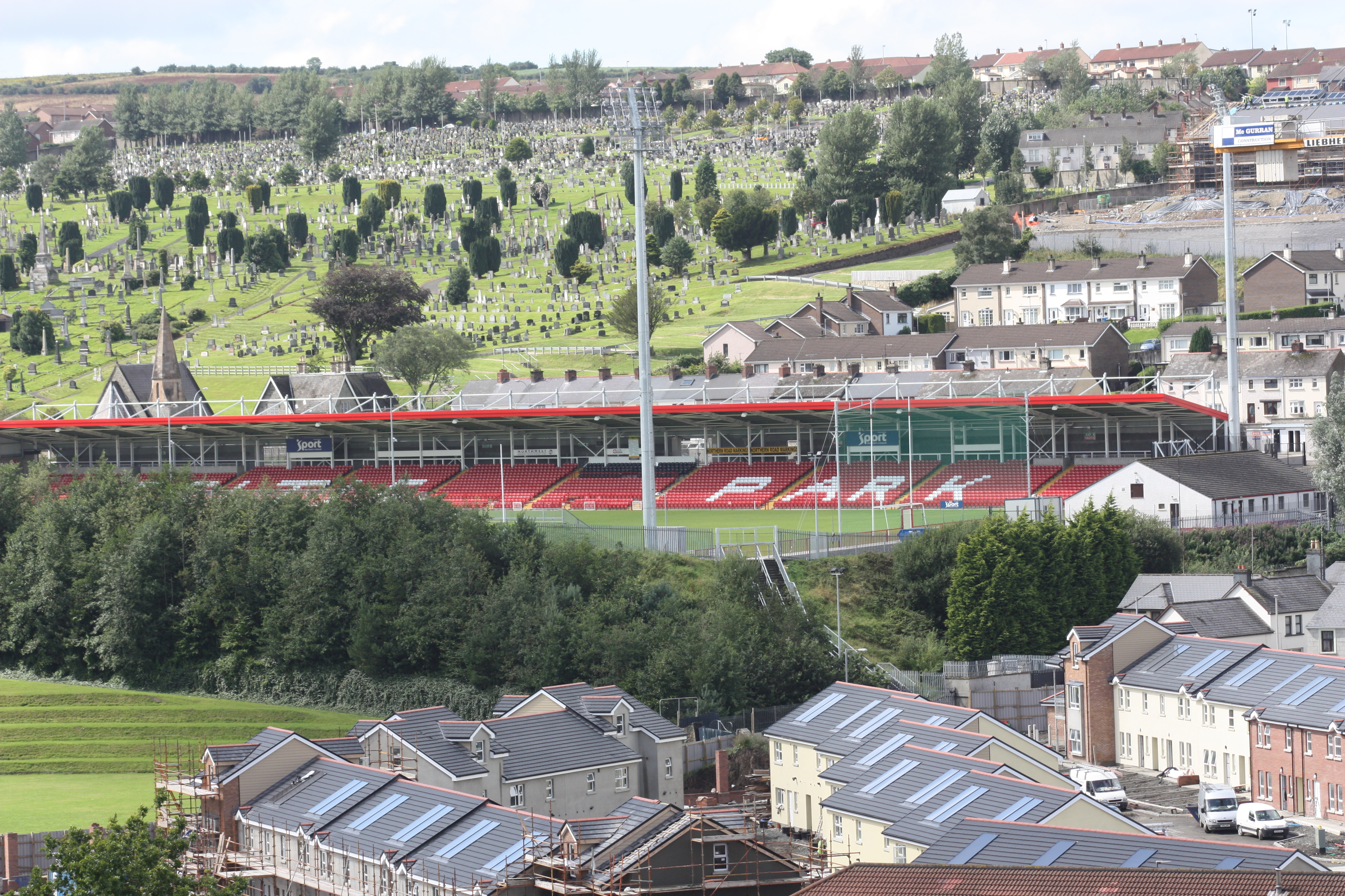 Celtic Park, Derry, County Londonderry, Northern Ireland, August 2009 (viewed from the Walls of Derry)